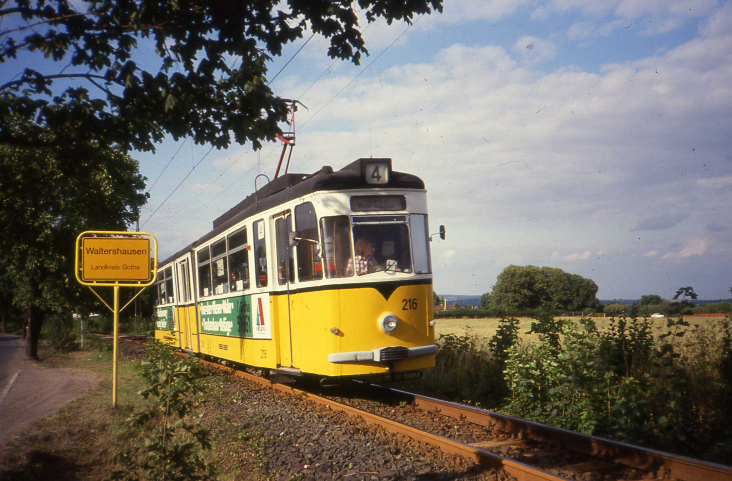 Between 1989 and 1991 some of the articulated Gotha GT4 units of the Gotha concern, used on the long overland route to the mountain resort of Tabarz received this yellow livery, in common with some of the newer Tatra trams. Trams used exclusively on Gotha town services were painted a light blue. The town sign for Walterhshausen has been replaced in the previous year, having sported the name of the DDR Bezirk ERFURT previously. Car no 216, here operating without a trailer, was scrapped in 1994. Car 215 survives from the 16 such vehicles.